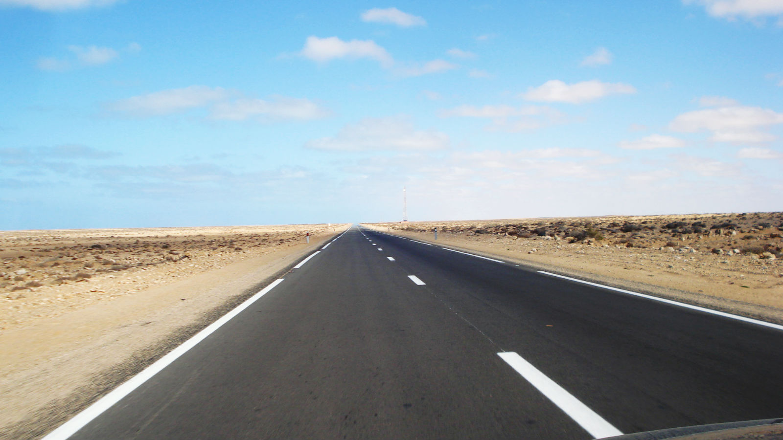 Picture was taken in 2017 after the moroccan government finished renovating a road that links Laayoune city to Boujdour.